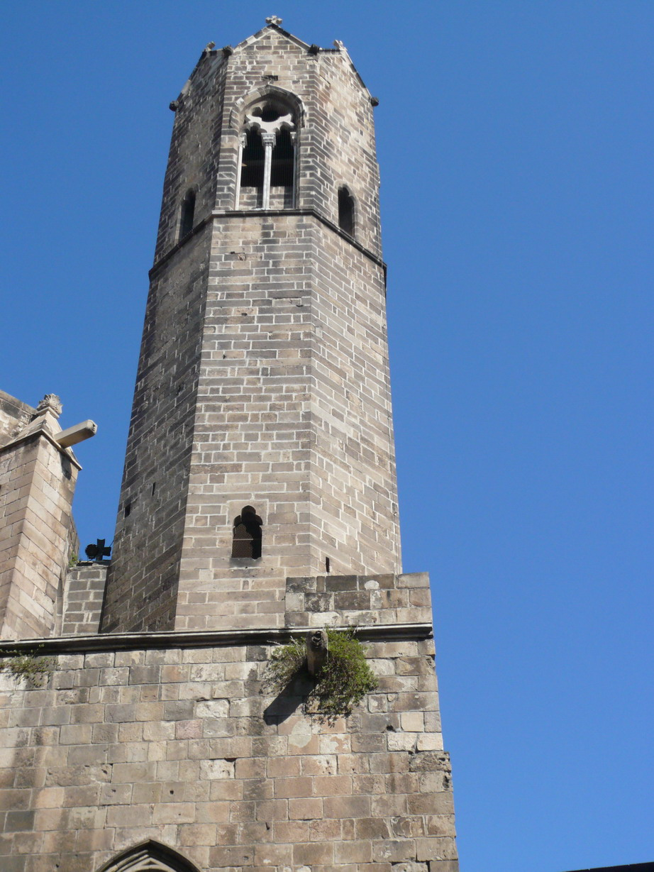 Santa Àgata chapel tower, Barcelona.